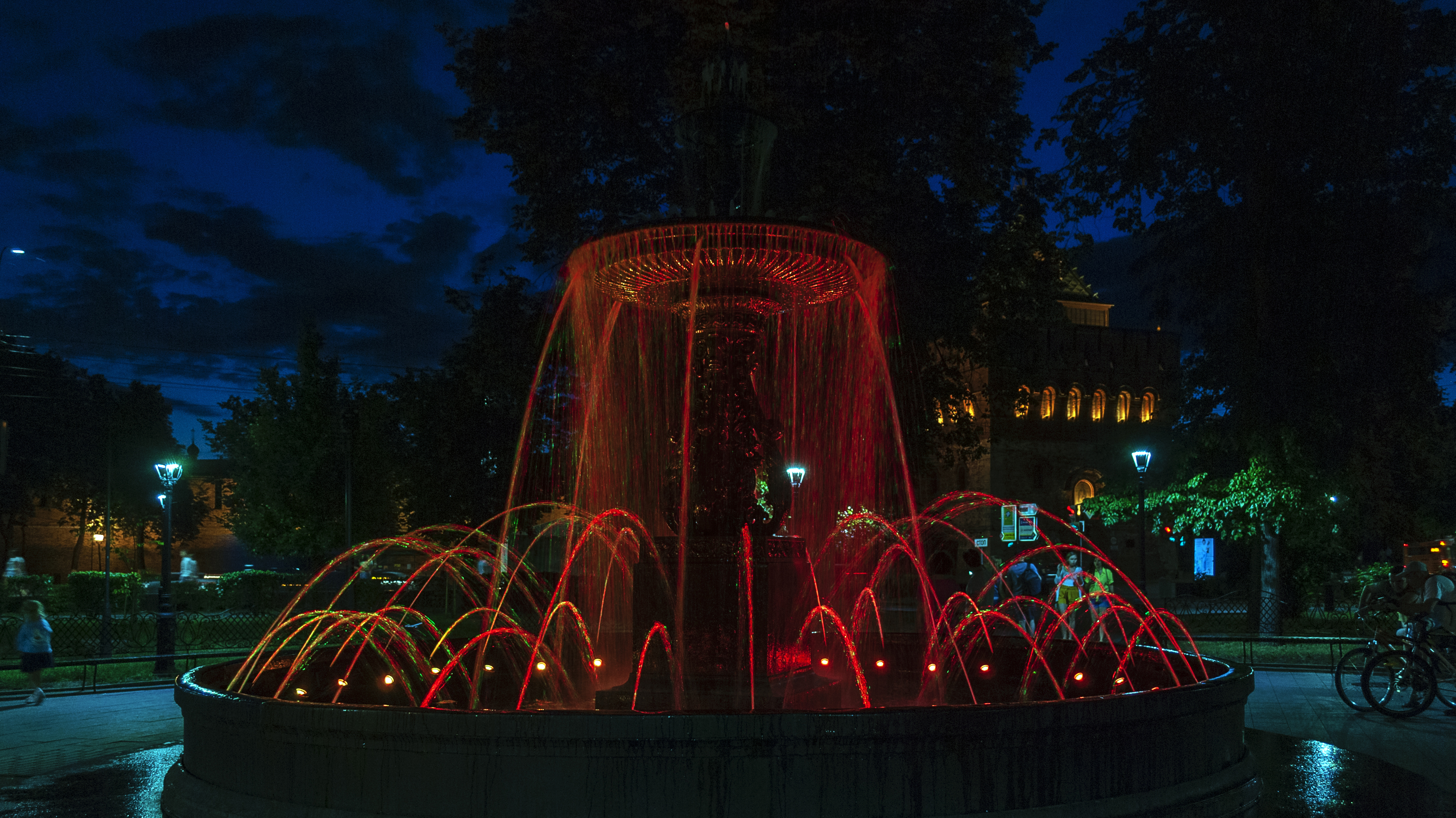 The main Nizhny Novgorod fountain on Minin Square